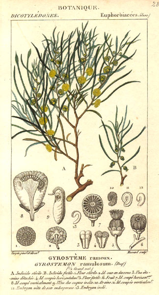 Illustration of Gyrostemon ramulosus (Orig. Gyrostemum ramulosum)